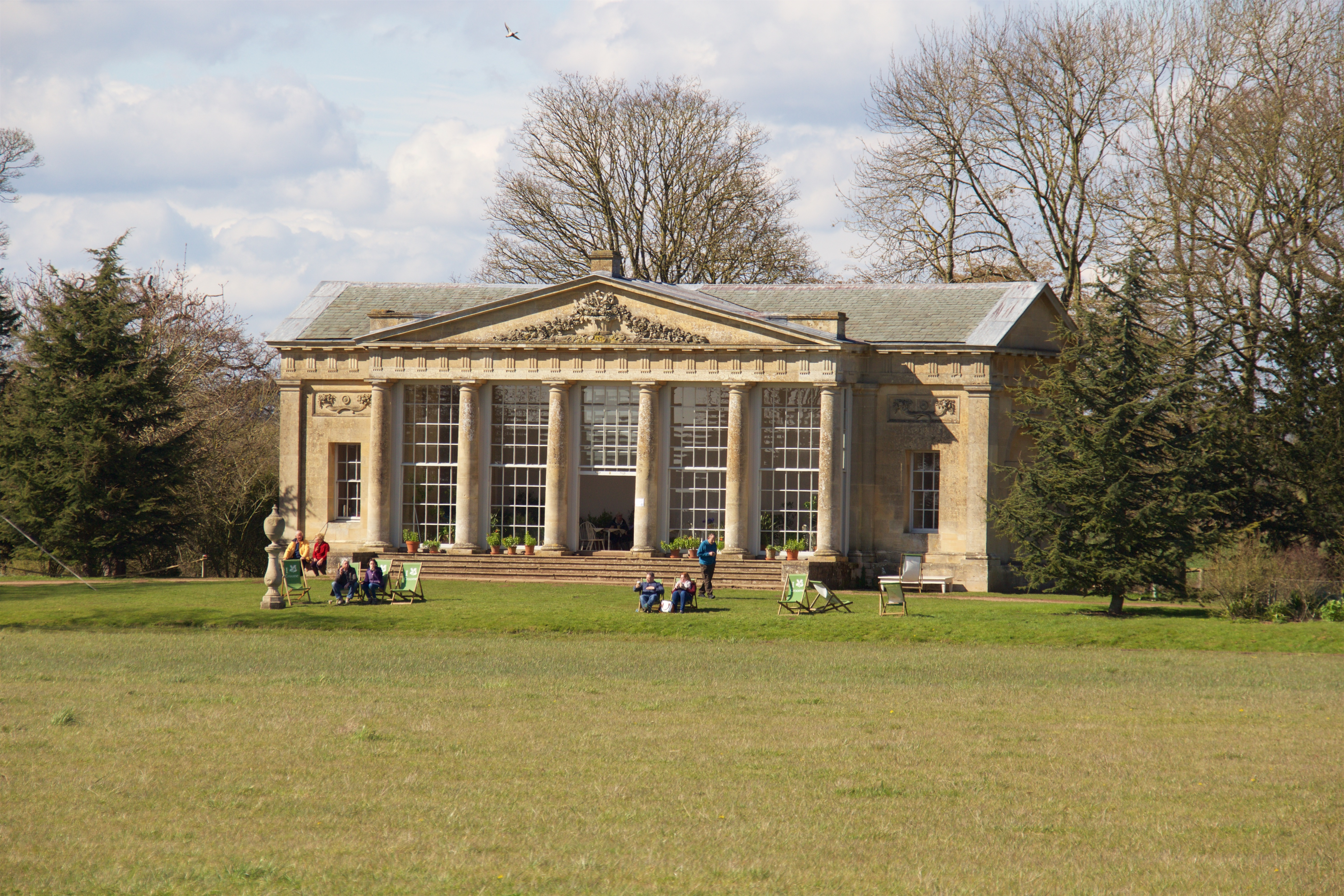 Croome Court, Croome D'Abitot, 2016